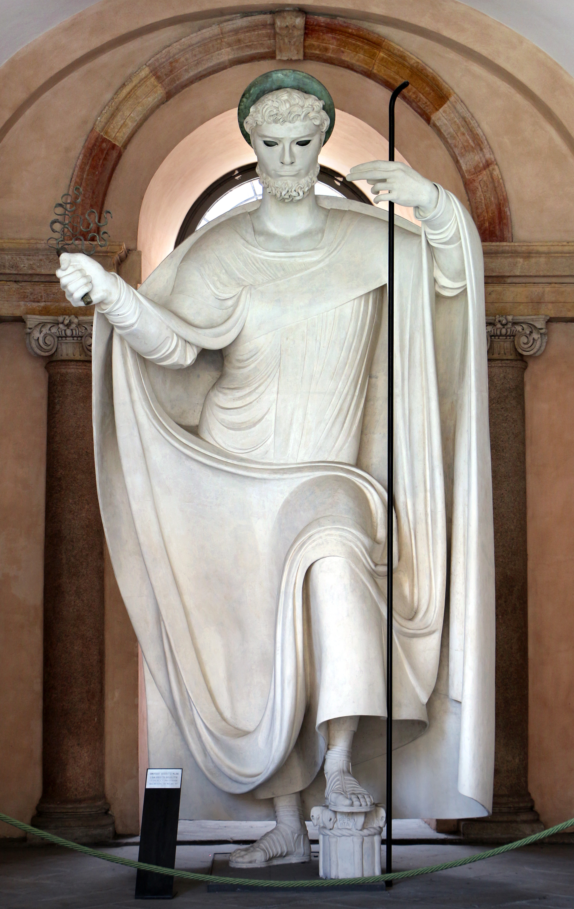 Università Statale (Milan)